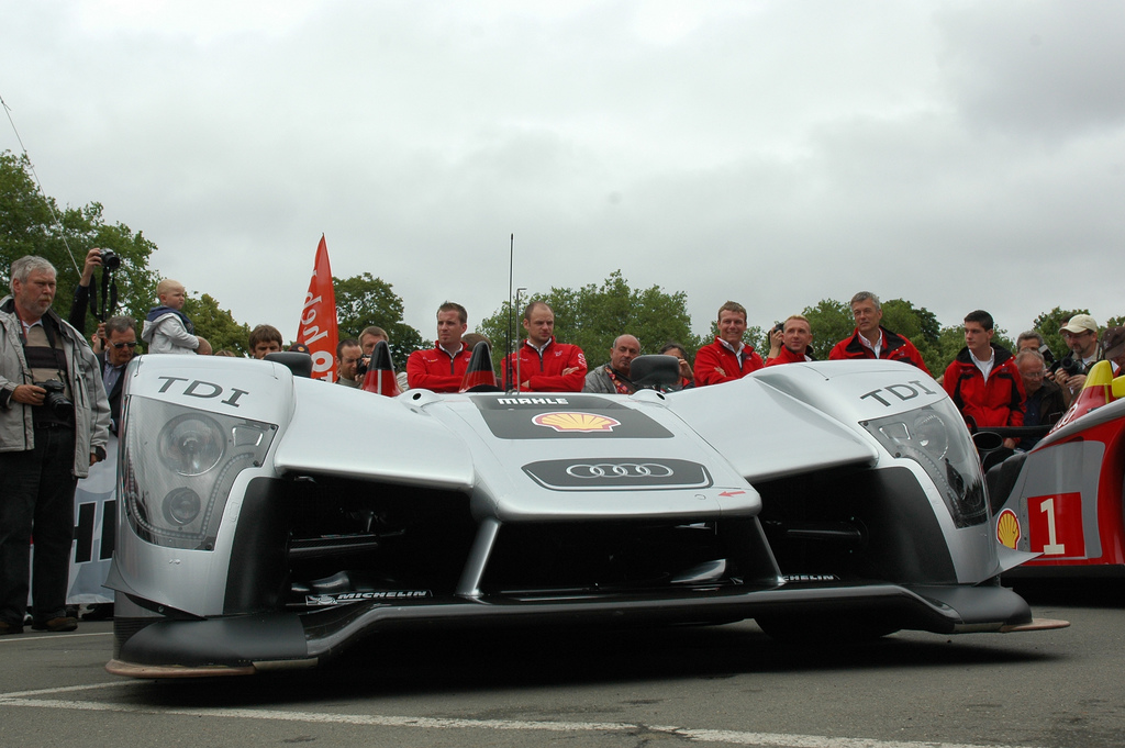 Audi Sport Team Joest's Audi R15 TDI at scrutineering for the 2009 24 Hours of Le Mans.